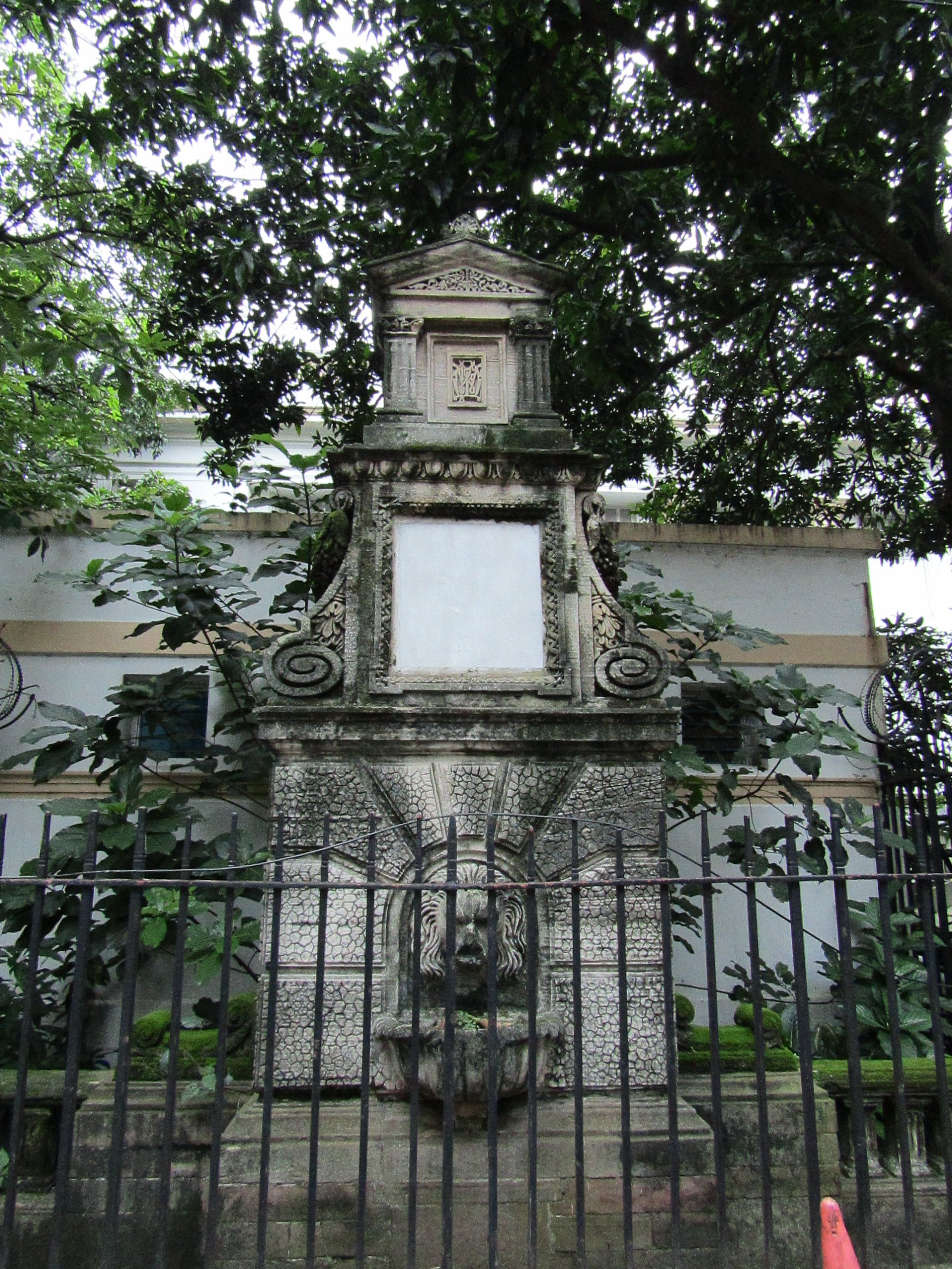 A drinking fountain erected in the memory of William Fraser McDonnel. Currently situated near West Bengal Legislative Assembly Building and High Court, Kolkata (Calcutta)